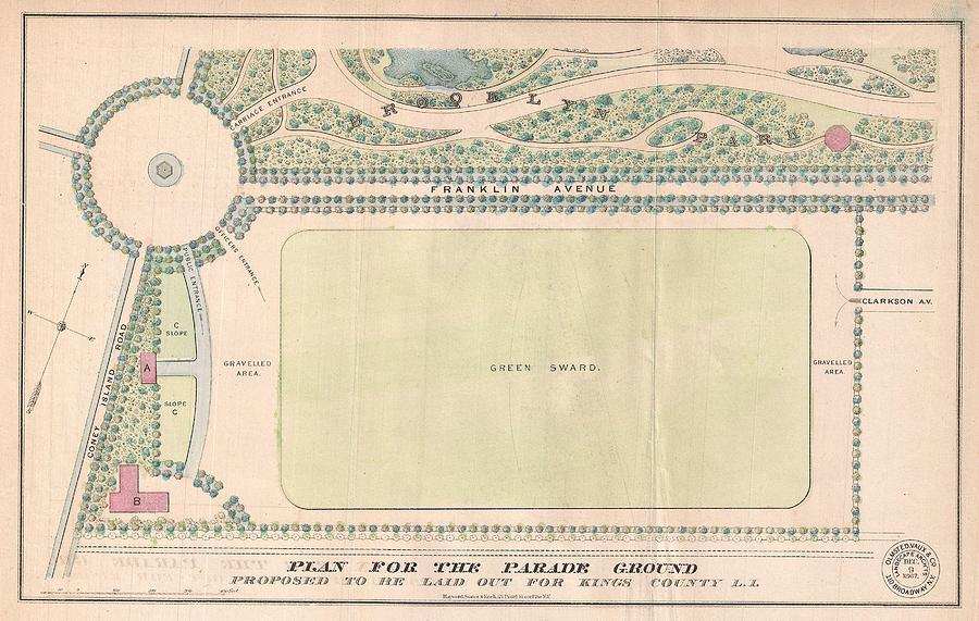 A blueprint for the Parade Ground of Prospect Park in Brooklyn, NY.